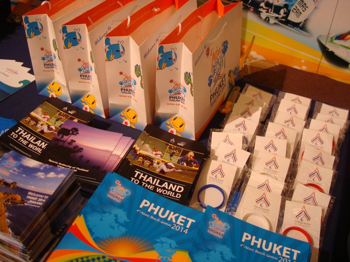 2014atPHUKET